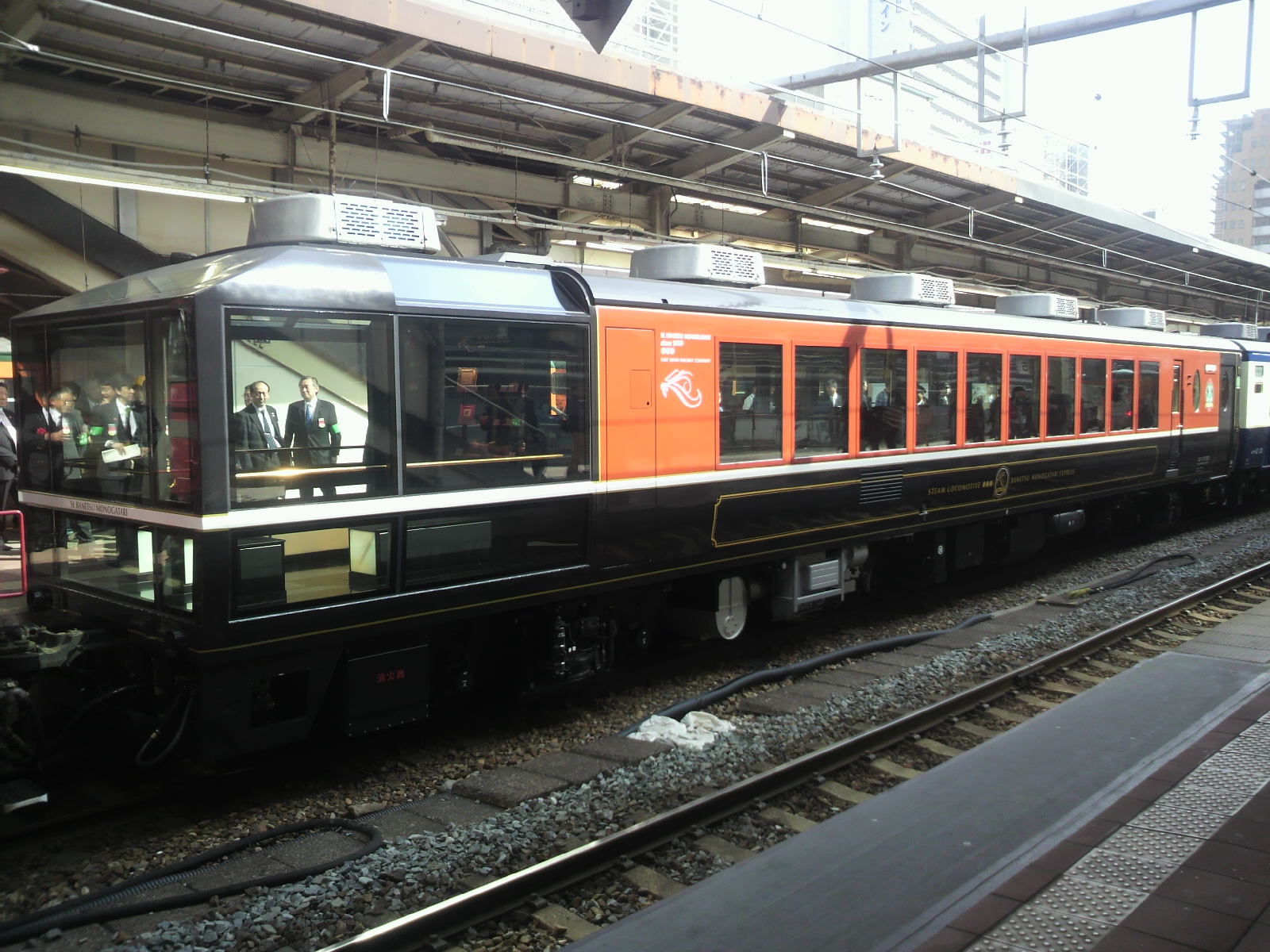 12 series observation coach SuRoFu 12 102 at the rear of the Banetsu Monogatari trainset at Niigata Station